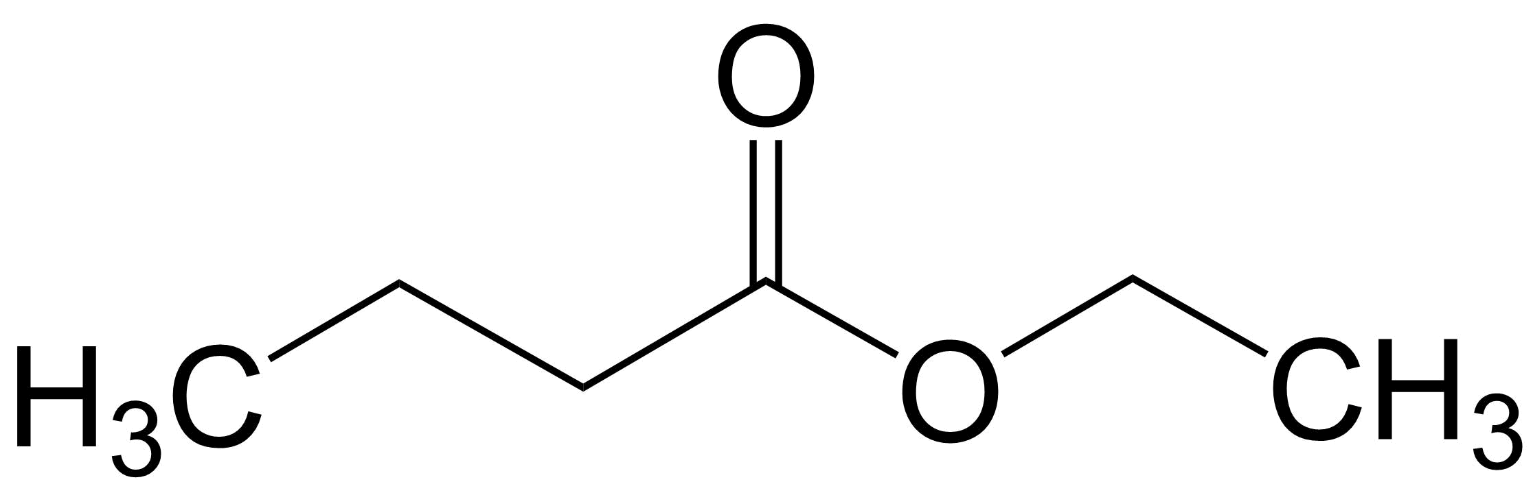 Ethyl butyrate 2D molecular structure